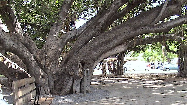 Photograph of Banyan Tree Square in Lāhainā, Hawai'i. Taken in October 2006, it features the exceptionally large banyan tree planted in 1873 to commemorate the fiftieth anniversary of the arrival of the missionaries.